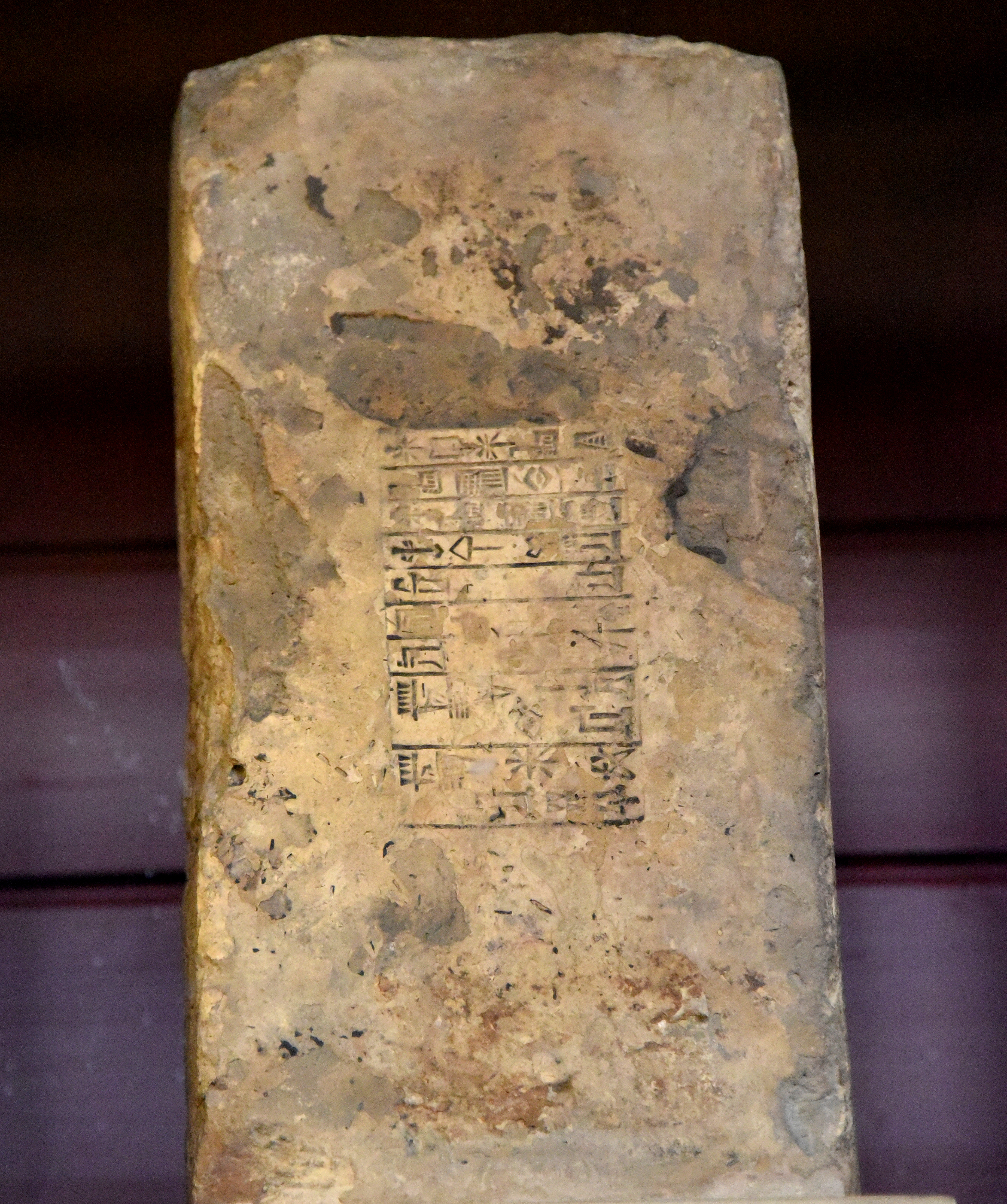 There are nine lines of cuneiform inscriptions on this fired clay brick; stamp of the king Amar-Sin (Amar-Suen, previously misread as Bur-Sin), king of Ur. 2100-2000 BC. From Eridu (modern-day Tell Abu Shahrain), southern Mesopotamia, Iraq. It is currently housed in the British Museum in London.